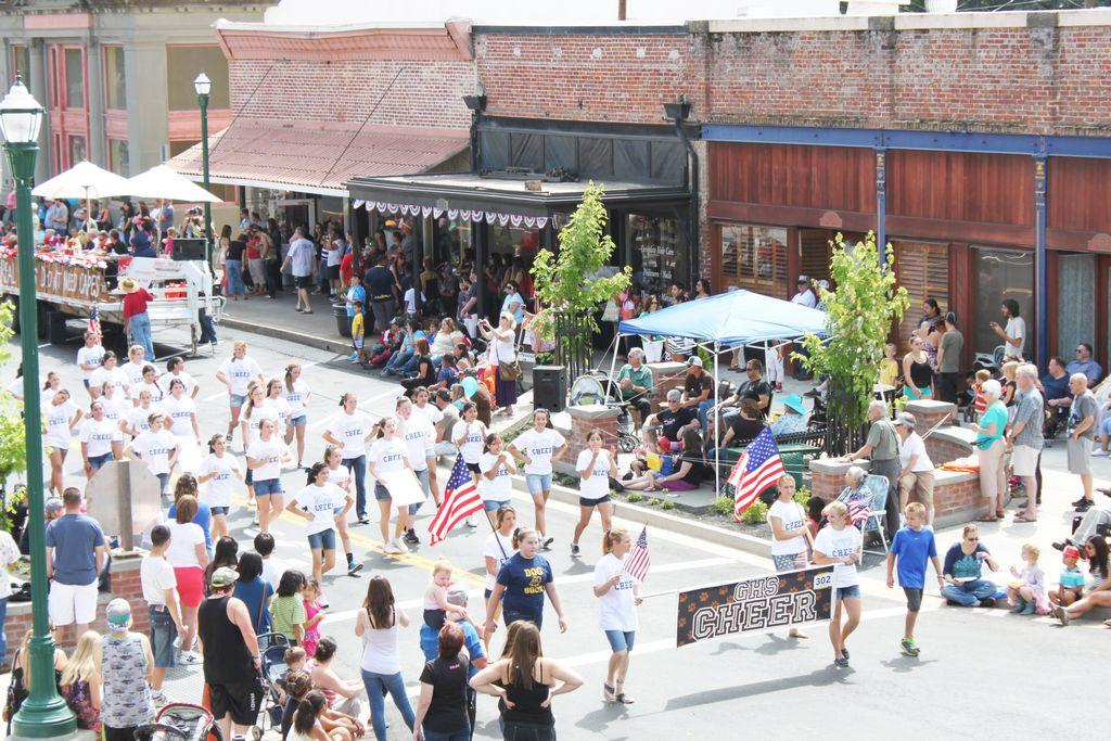 Photo of the Annual Red Suspenders Parade